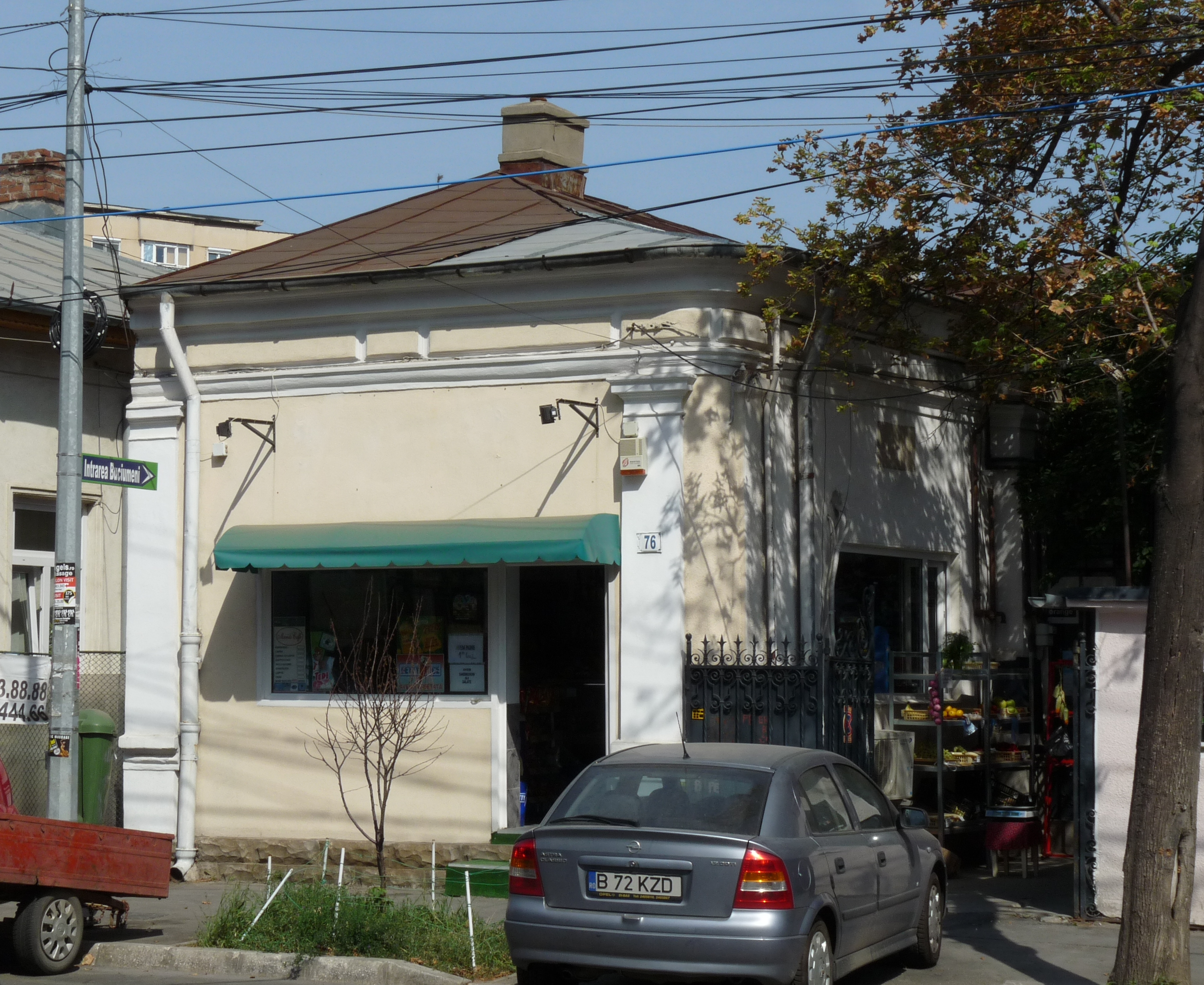 Historical building in Bucharest, Romania, on Polonă street 76